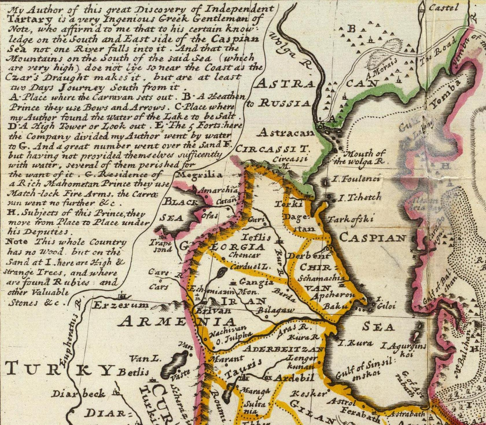 Persia, the Caspian Sea done by ye Czar, and part of Independent Tartary. By (blank) with his Tract from Astracan to Gilan in Persia. Above 2,700 Eng. miles. By H. Moll Geographer. (Printed and sold by T. Bowles next ye Chapter House in St. Pauls Church yard, & I. Bowles at ye Black Horse in Cornhill, 1736?).